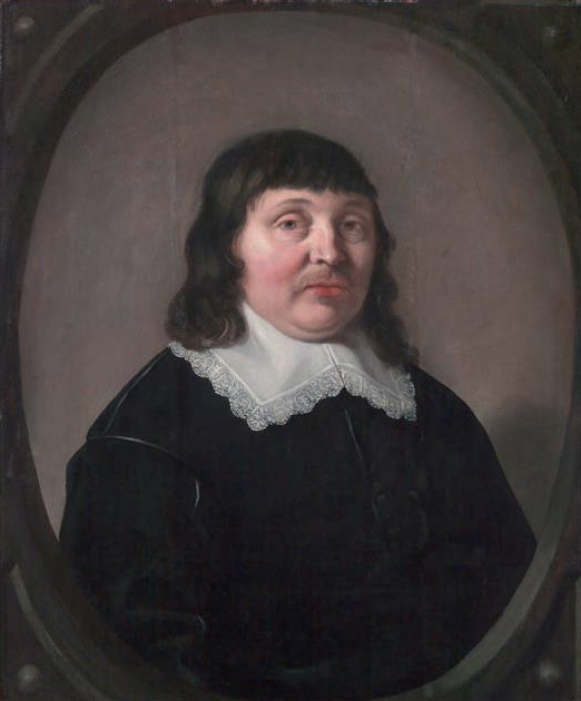 Johannes Bredius (1610-1656) oil on panel 72,5 x 62,5 cm 1635 - 1645